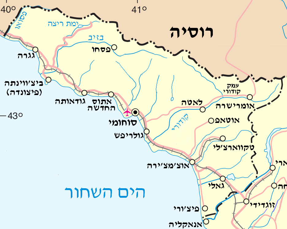 Map of Abkhazia